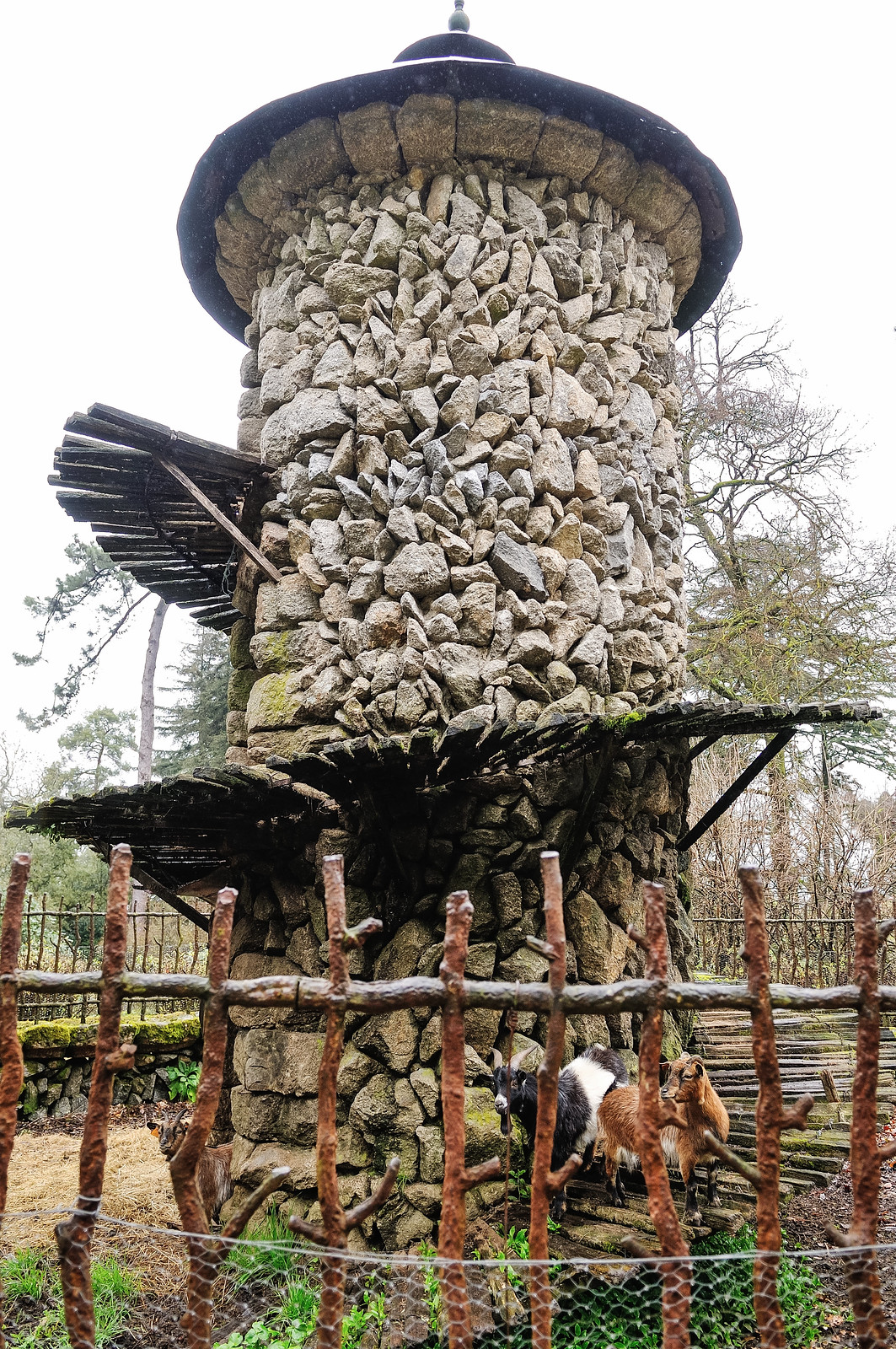 dwarf goat tower at Quinta da Aveleda, Penafiel, Portugal